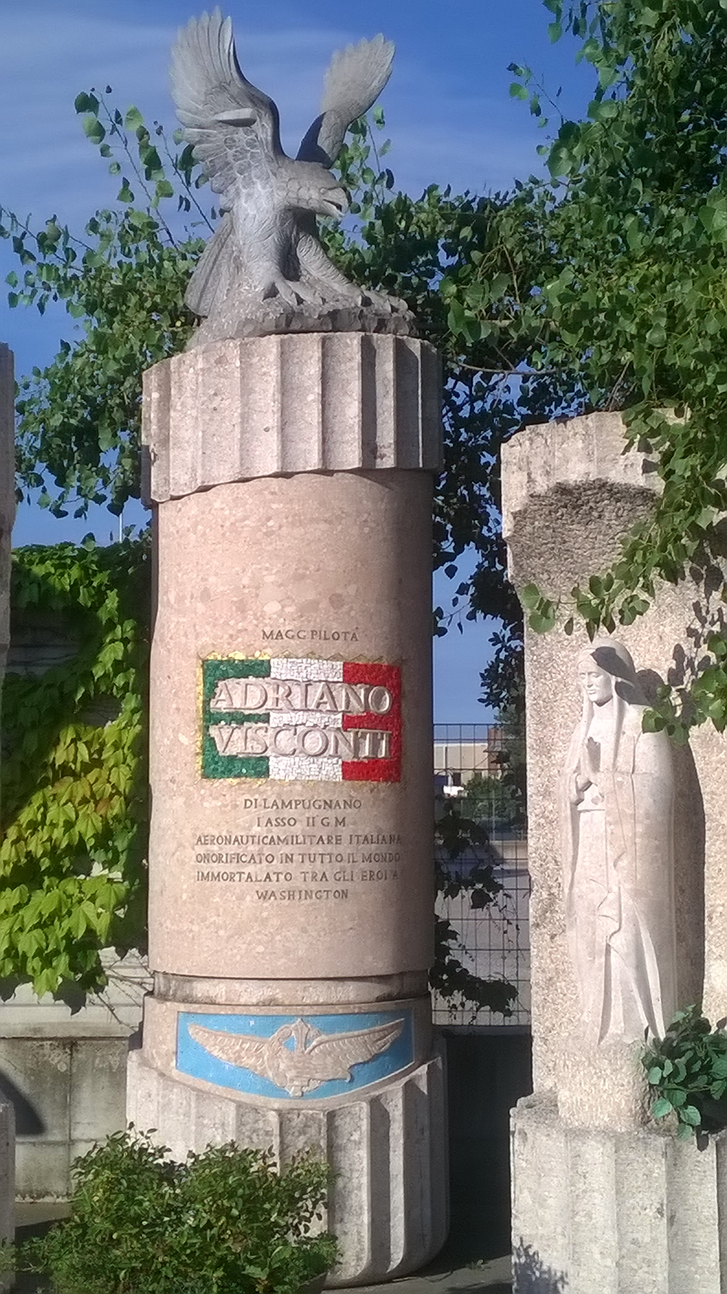 Museo Storico Aeronautico del Friuli Venezia Giulia